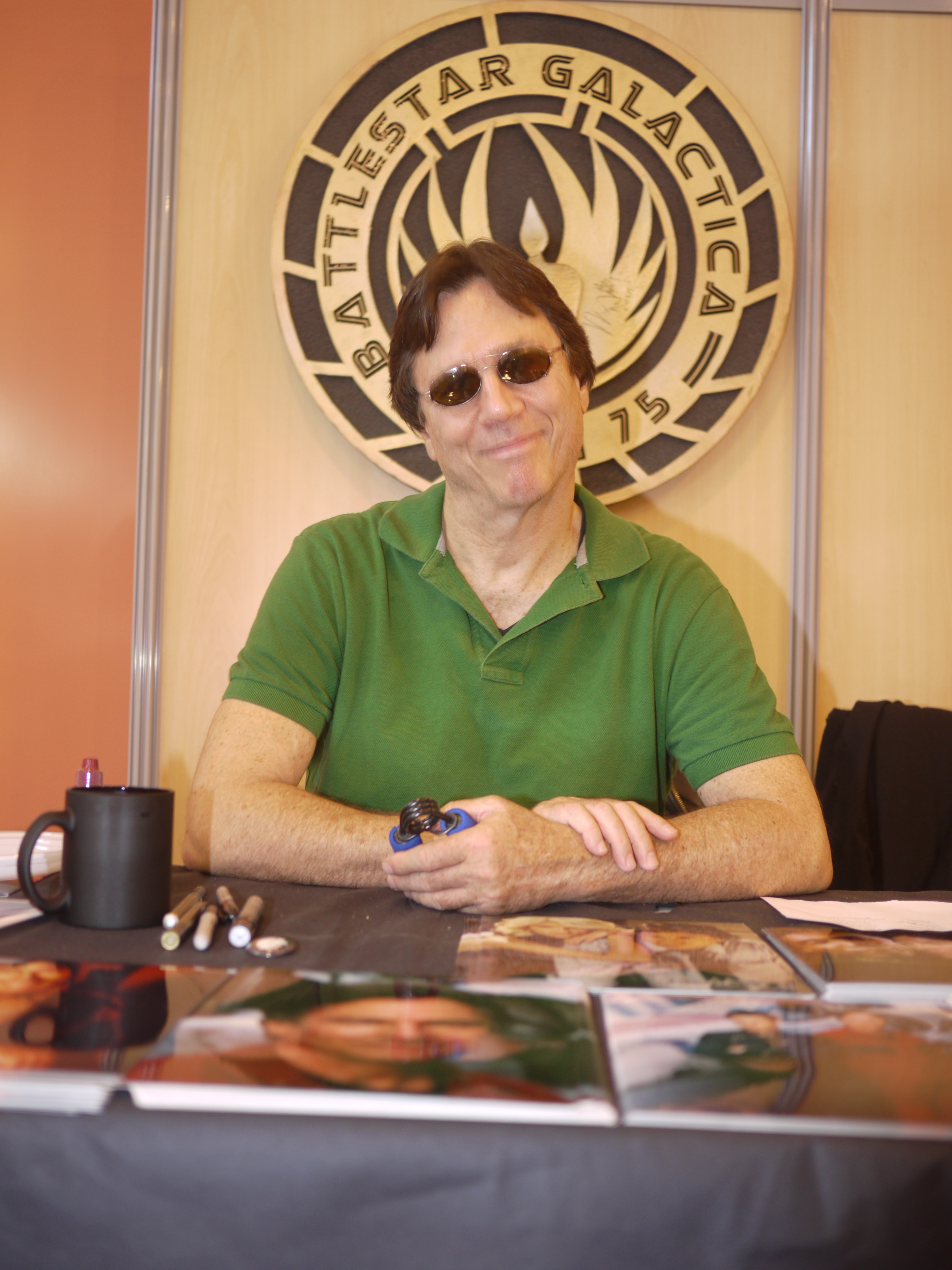 Toulouse Game Show Festival, 4th edition.